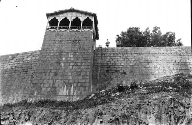 City wall. Inscrip. Merwanid Nasr 464 H [View from below of City Walls showing tower and inscription - Merwanid Nasr 464 AH. Two men nearby]